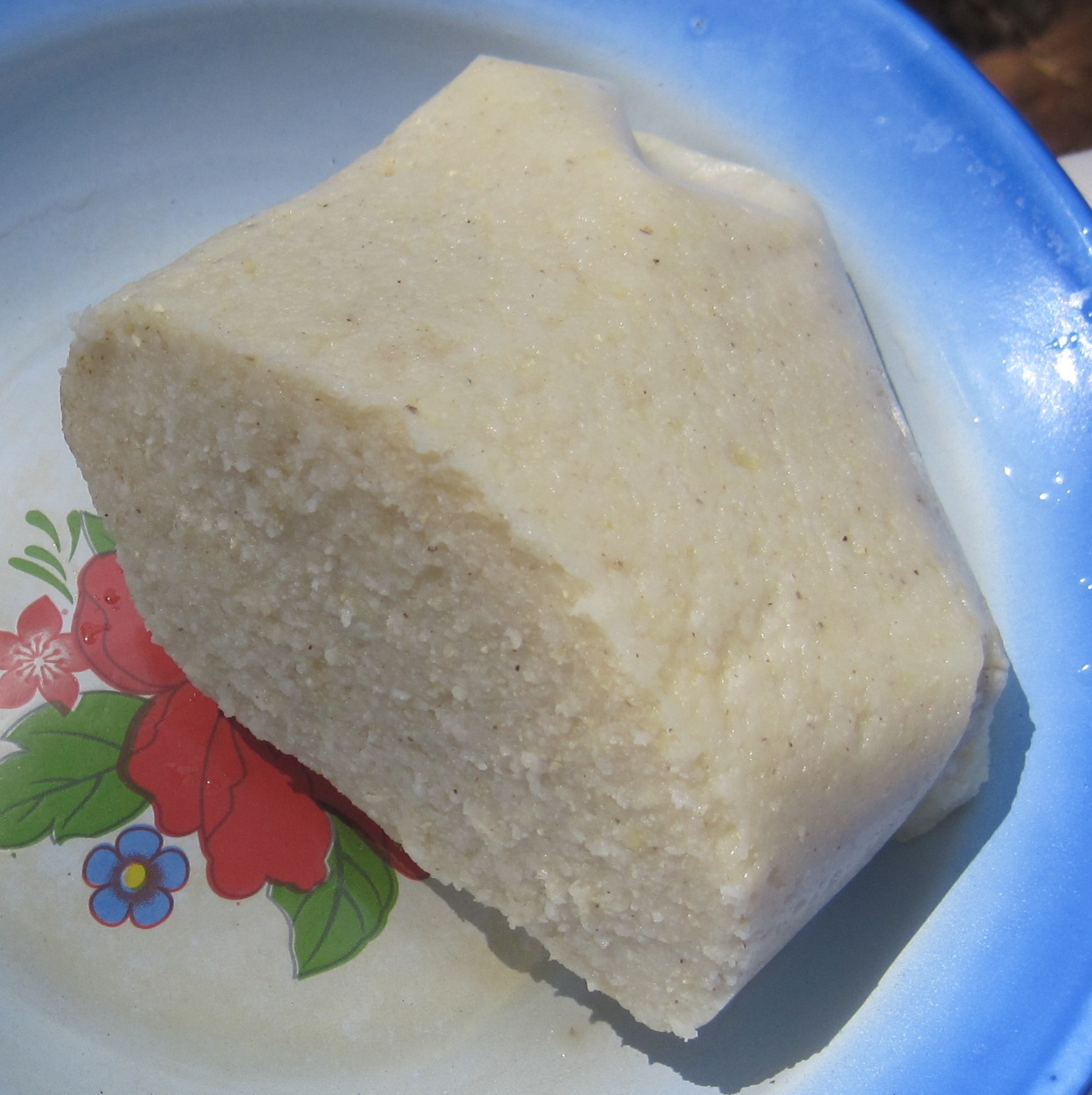 Individual plate of garri to eat by hand with fish and greens, Baba1, Ndop Commune, Northwest Region, Cameroon, March 2011: Garri is fufu made of tapioca/manioc/cassava.